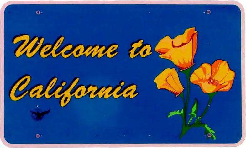 Road Sign "Welcome to California" (G10B(CA))